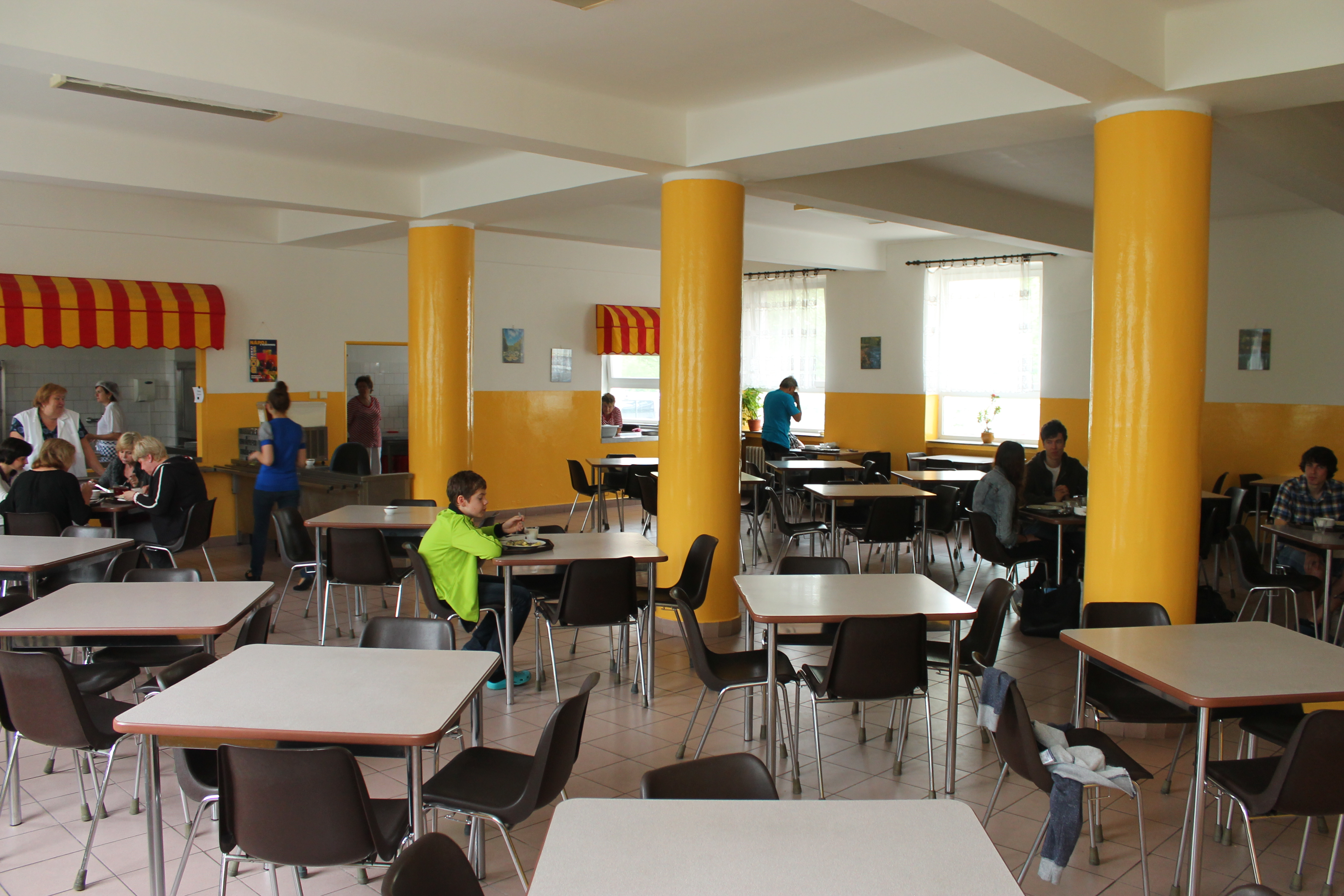 Gymnázium Budějovická, Prague – canteen